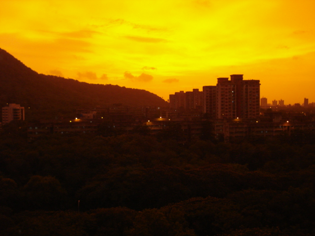 Took this snap from Annapurna in the evening. It was looking so great in real life!